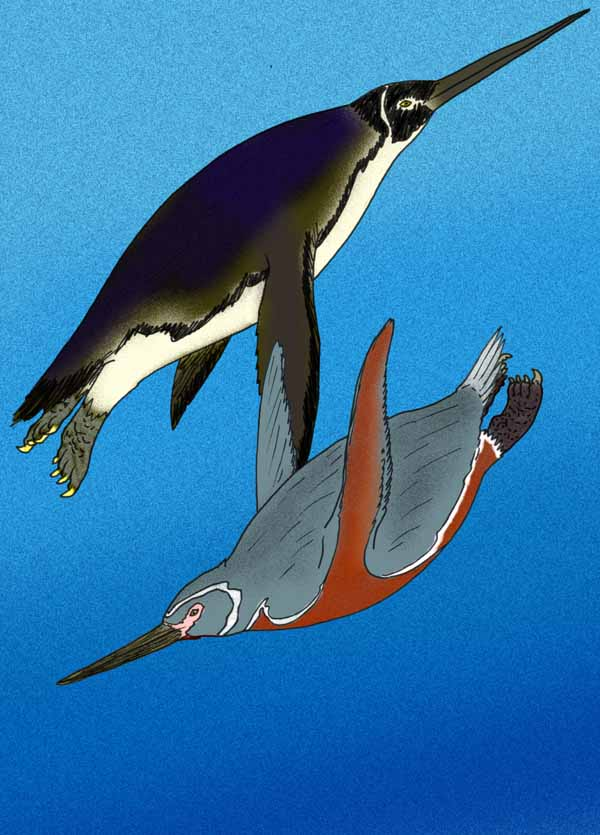 Comparison of the primitive penguins Icadyptes (top) and Inkayacu, from Eocene Peru